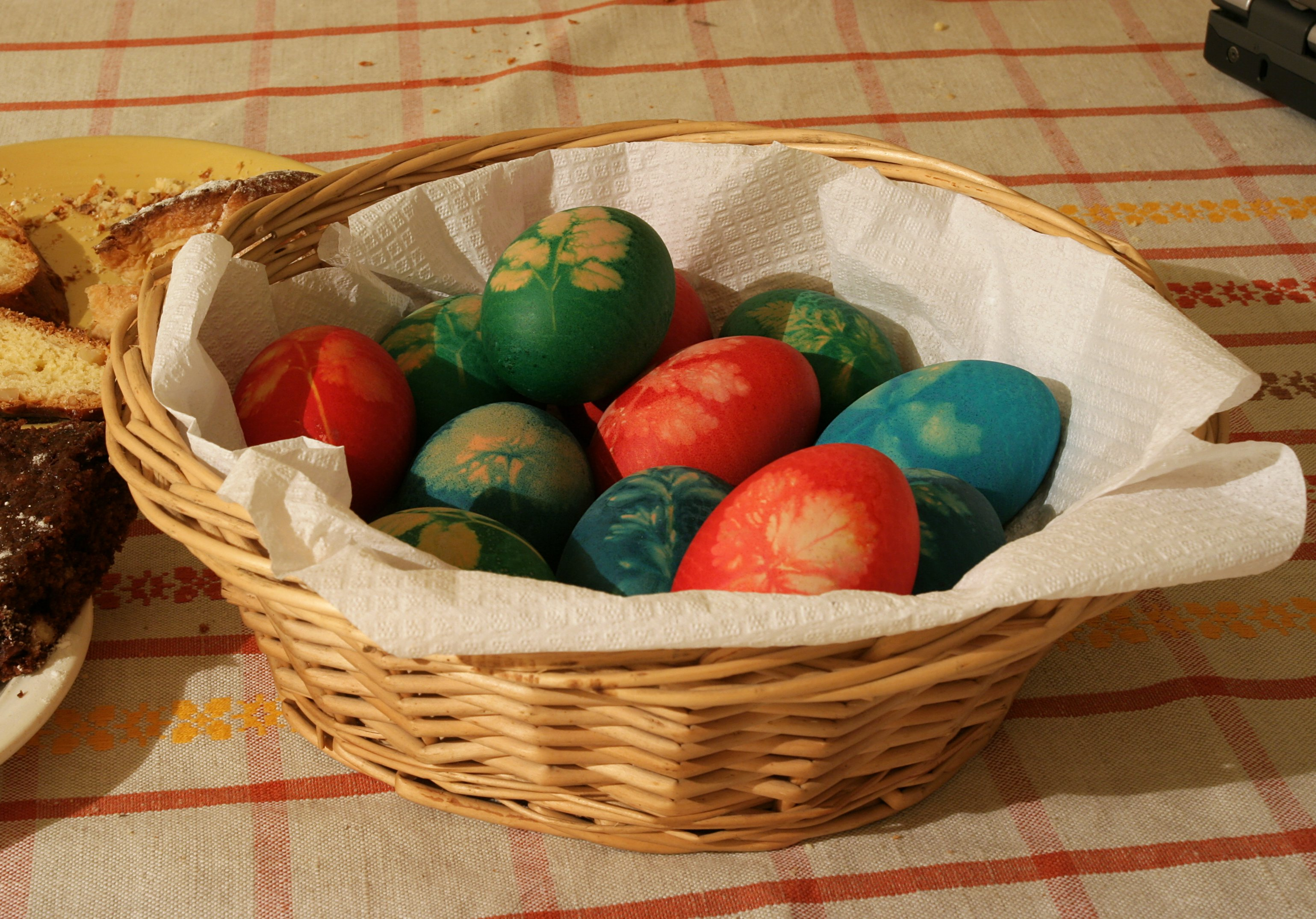 A few Easter eggs painted by The Big Sister